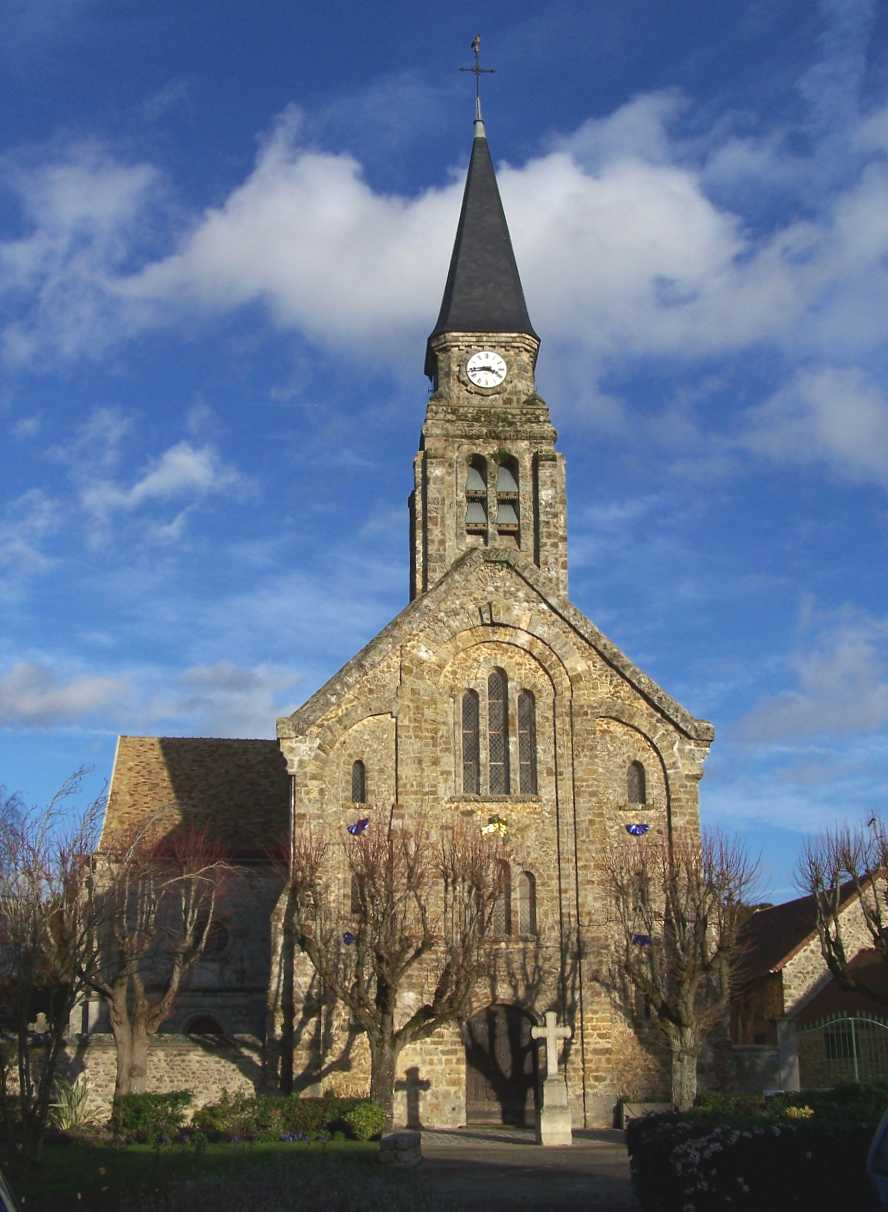 Church of Coignières (Yvelines, France)